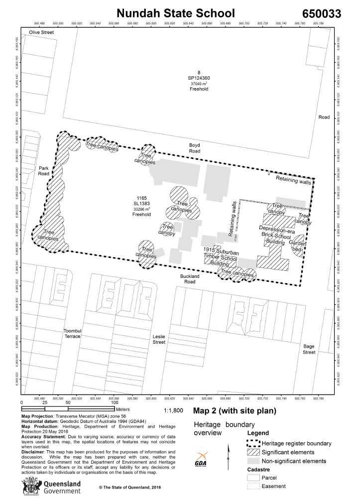 650033 Nundah State School - Map 2 (2016)